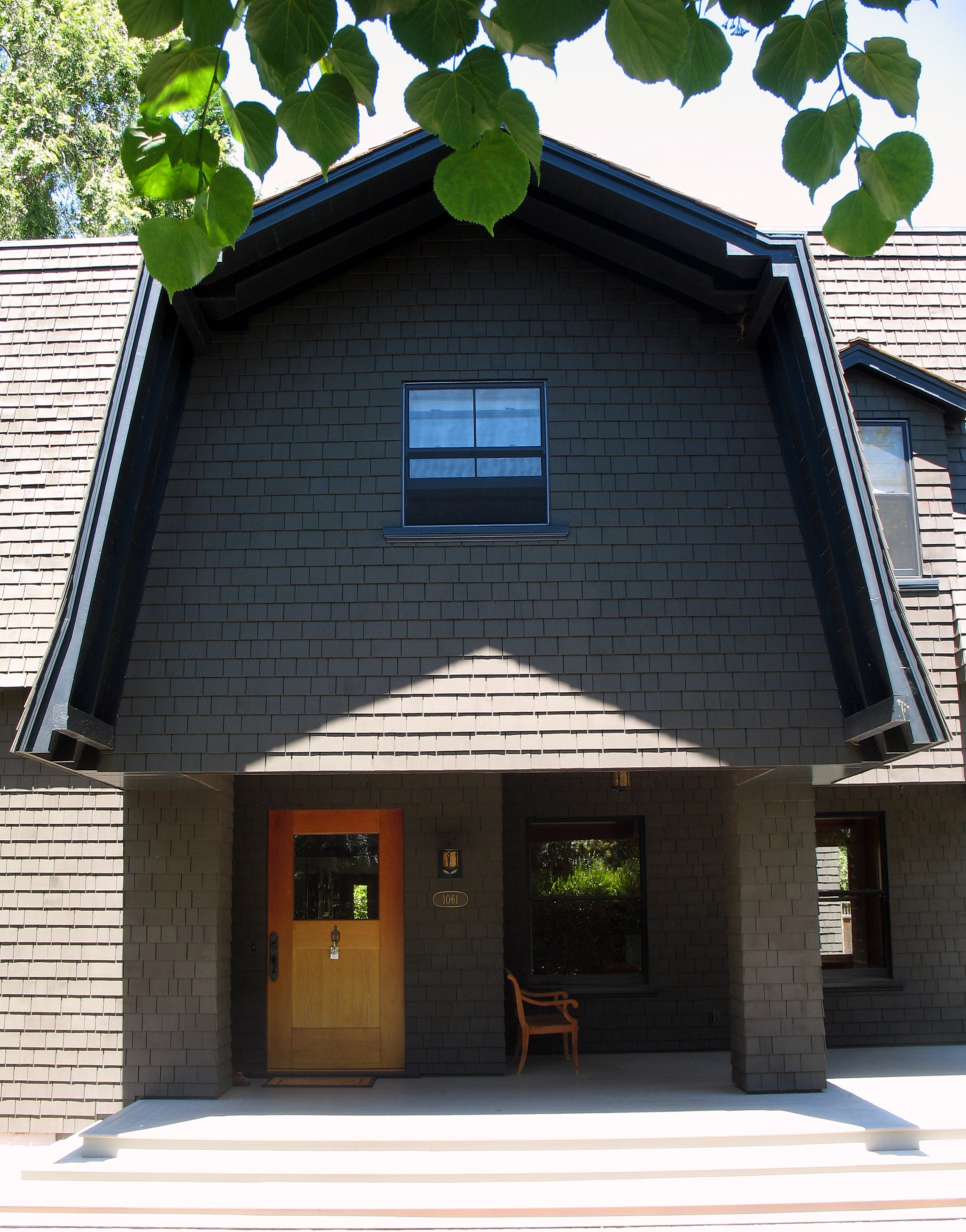 Professorville Historic District — the Sun-bonnet House, 1061 Bryant Street, Palo Alto, California. Designed by architect Bernard Maybeck in 1899.